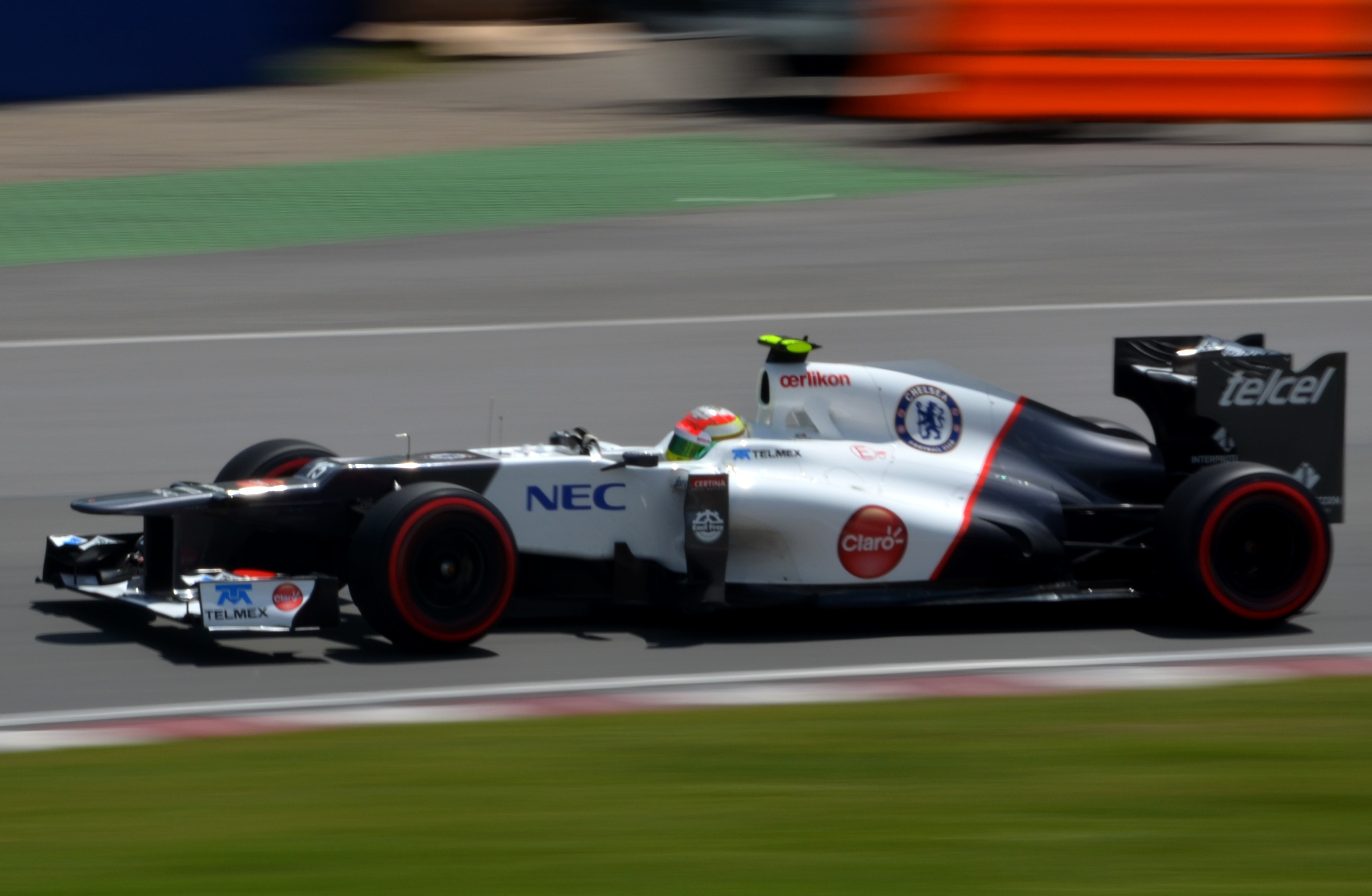 Sergio Perez in the Sauber - Ferrari C31 at turn 9 of Circuit Gilles Villeneuve during qualifying for the 2012 Canadian Grand Prix.